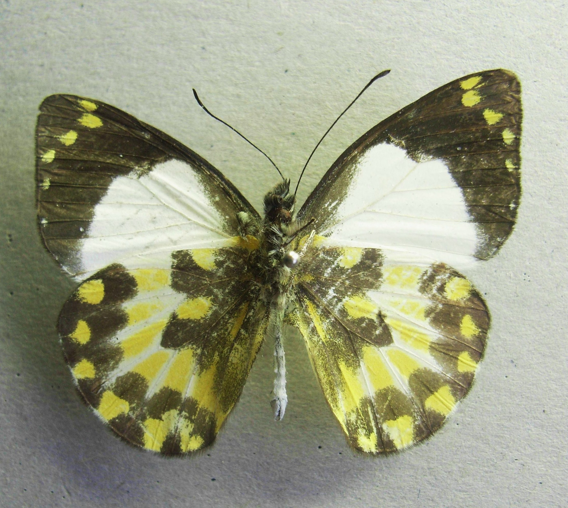 Delias cuningputi Underside:Pierinae:Pieridae